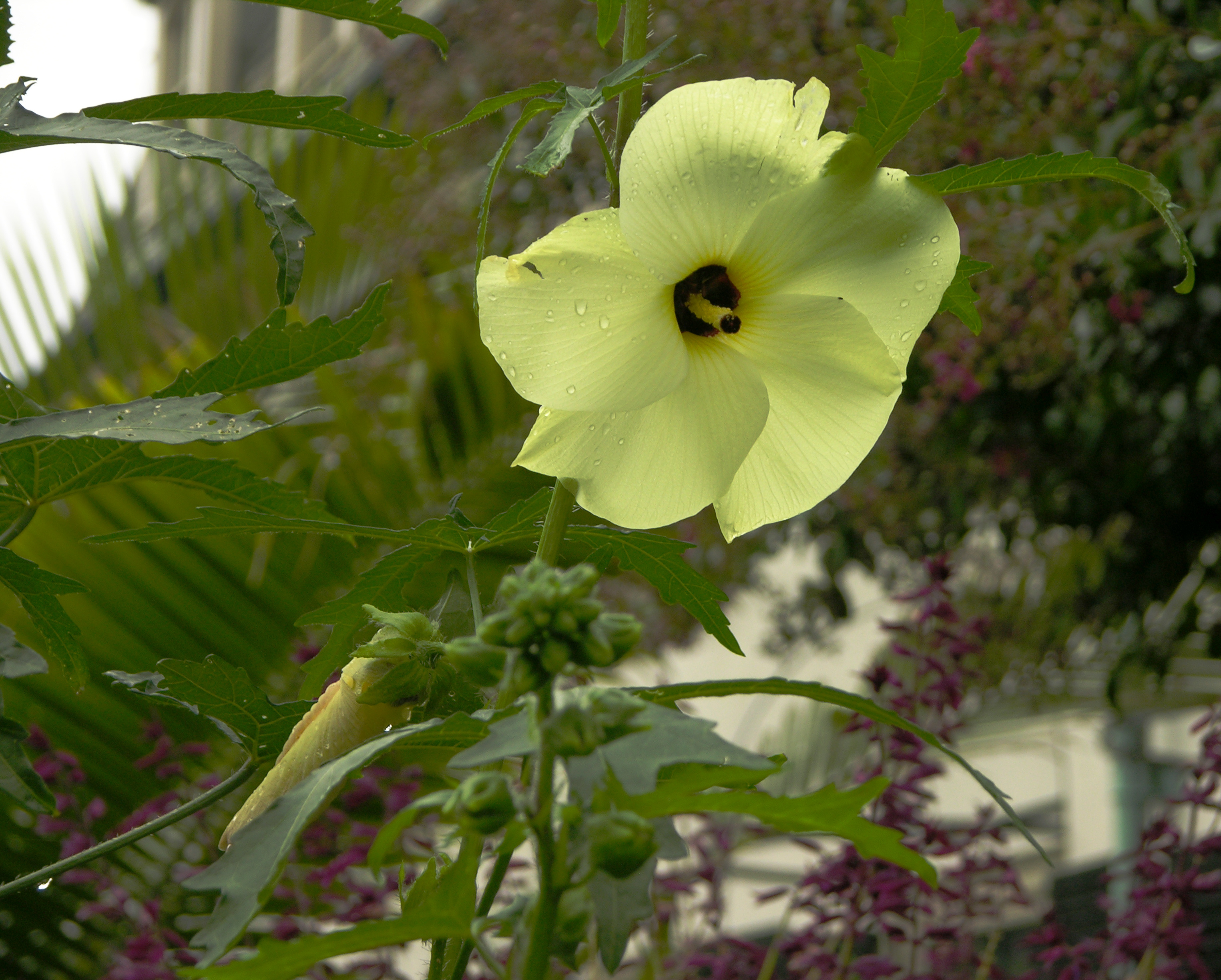 A picture of the flowers and leaves of the Abelmoschus manihot en plant. Photo taken at the Chanticleer Garden where it was identified.